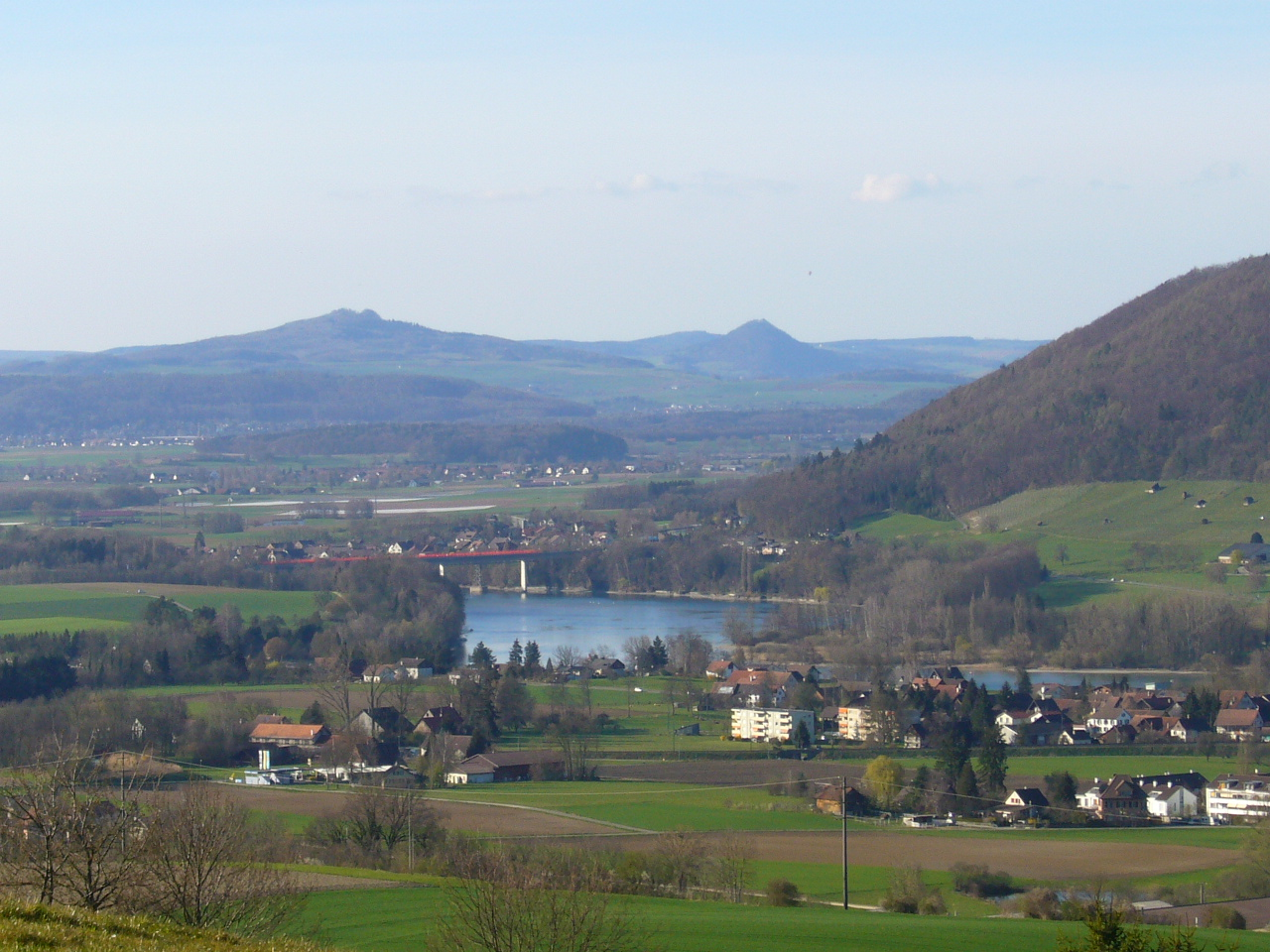 The Rhine river and Hemishofen (in the back Ramsen and Buch) below the town of Stein, canton Schaffhausen, Switzerland. Picture taken by Peter Berger. April 6, 2007.